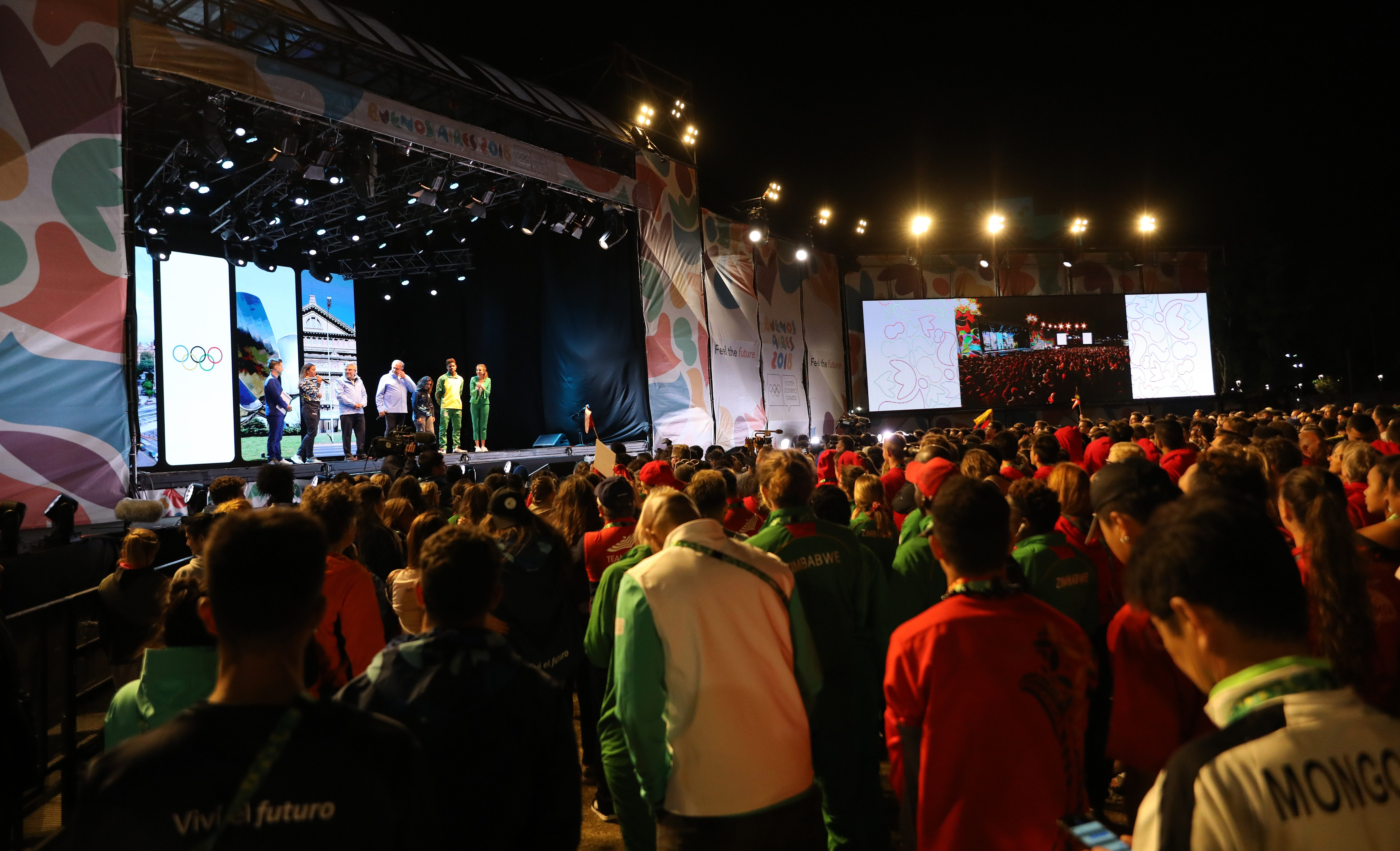 Closing ceremony at the 2018 Summer Youth Olympics in Buenos Aires on 18 October 2018.